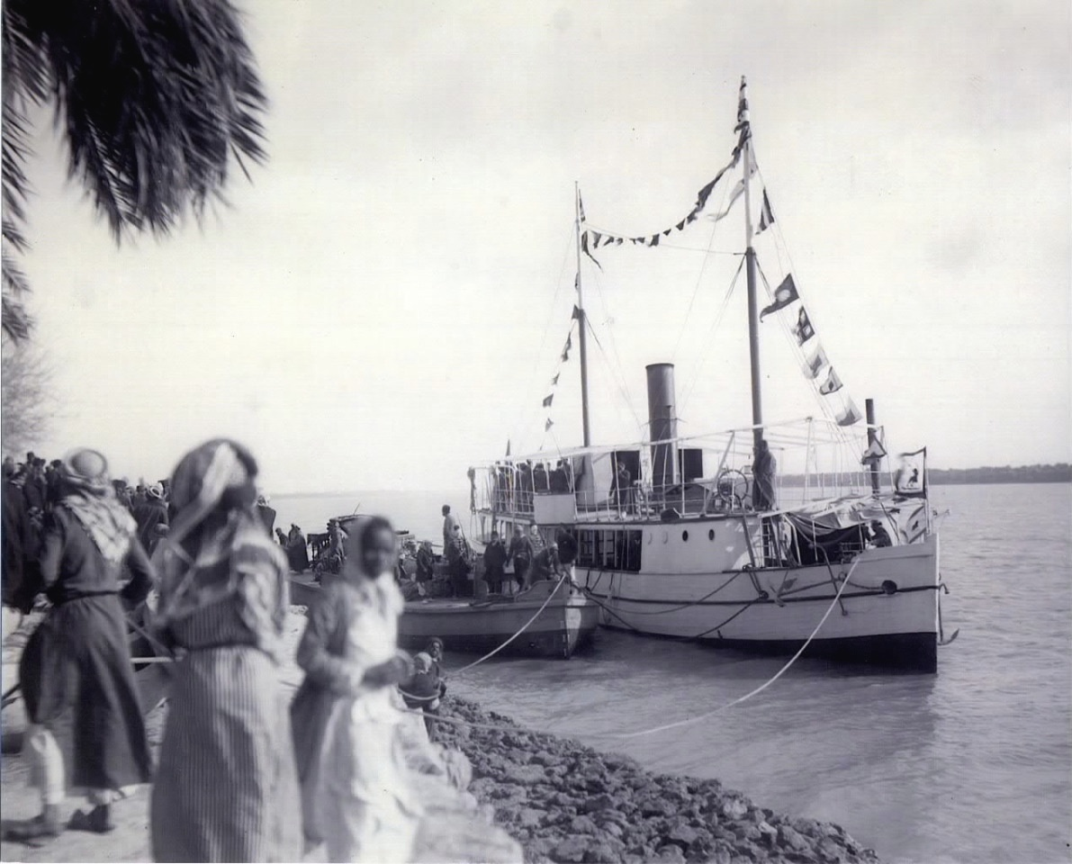 Sheikh Khaz'al's yacht docked behind his palace at Mohammerah